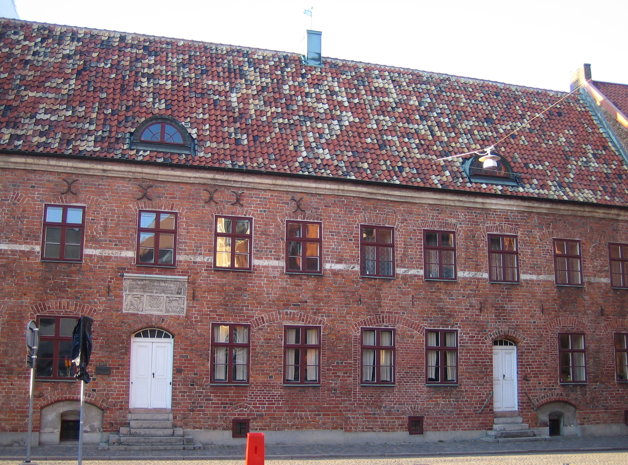 The Rosenvinge house in Malmö, Sweden